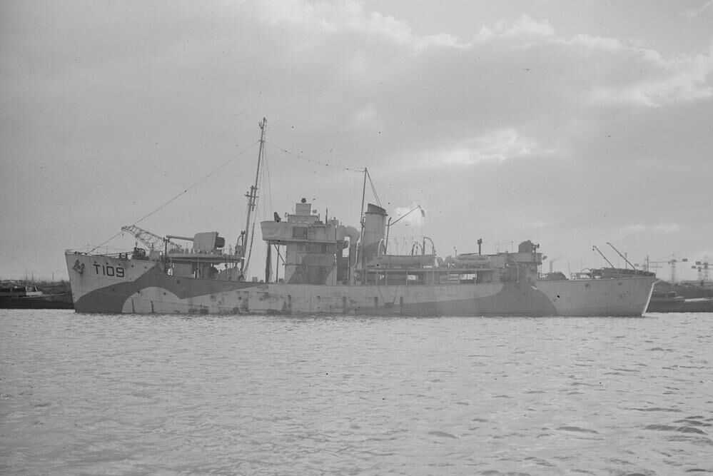 Photograph of British Dance class naval trawler HMT Foxtrot.